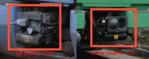 The difference between Class 170 and 171 - Class 170 on the left has a BSI Compact coupler whereas the Class 171 on the right has a Dellner coupler for emergency compatibility with the Southern EMU fleet.